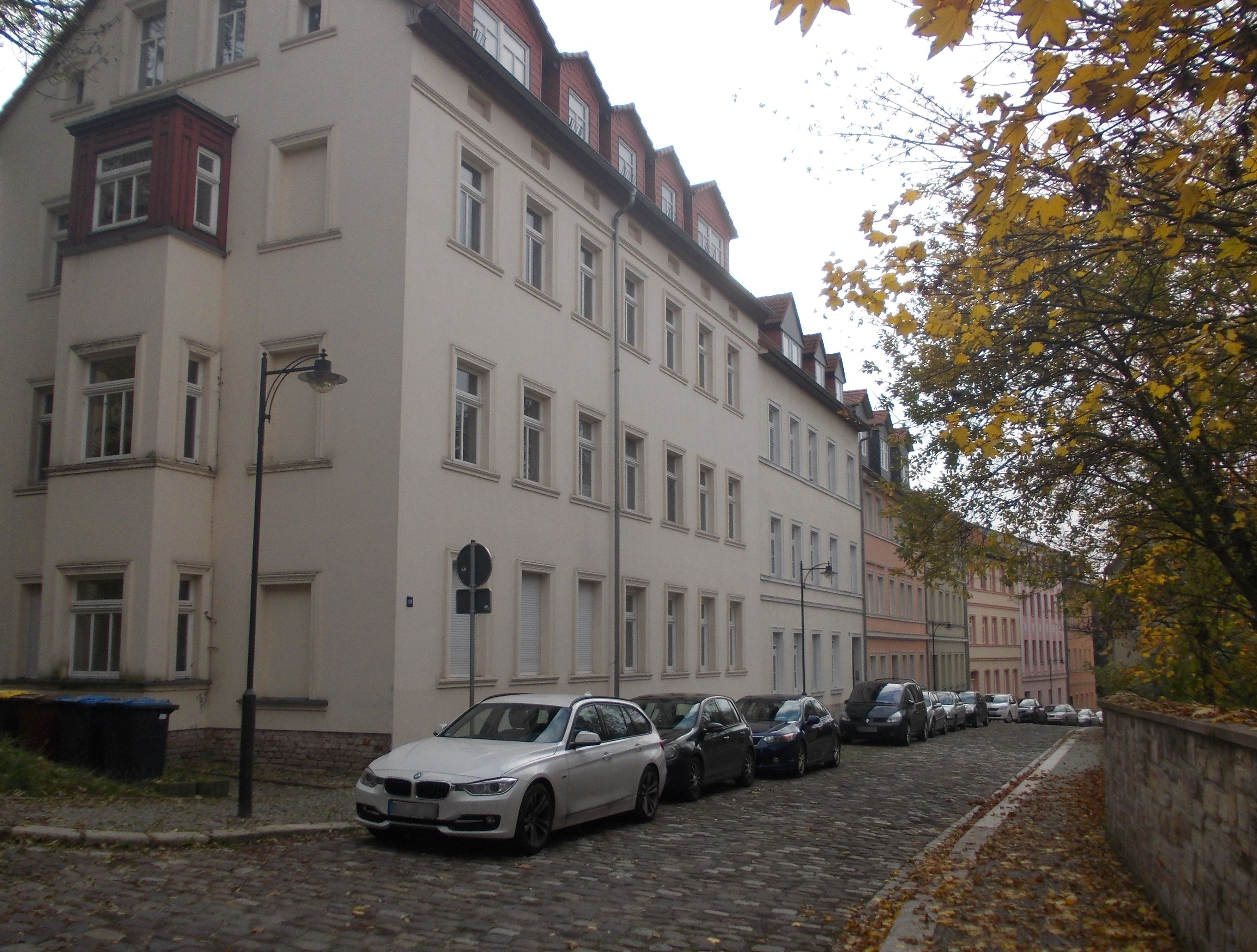 Alte Leipziger Strasse in Weissenfels (district: Burgenlandkreis, Saxony-Anhalt)